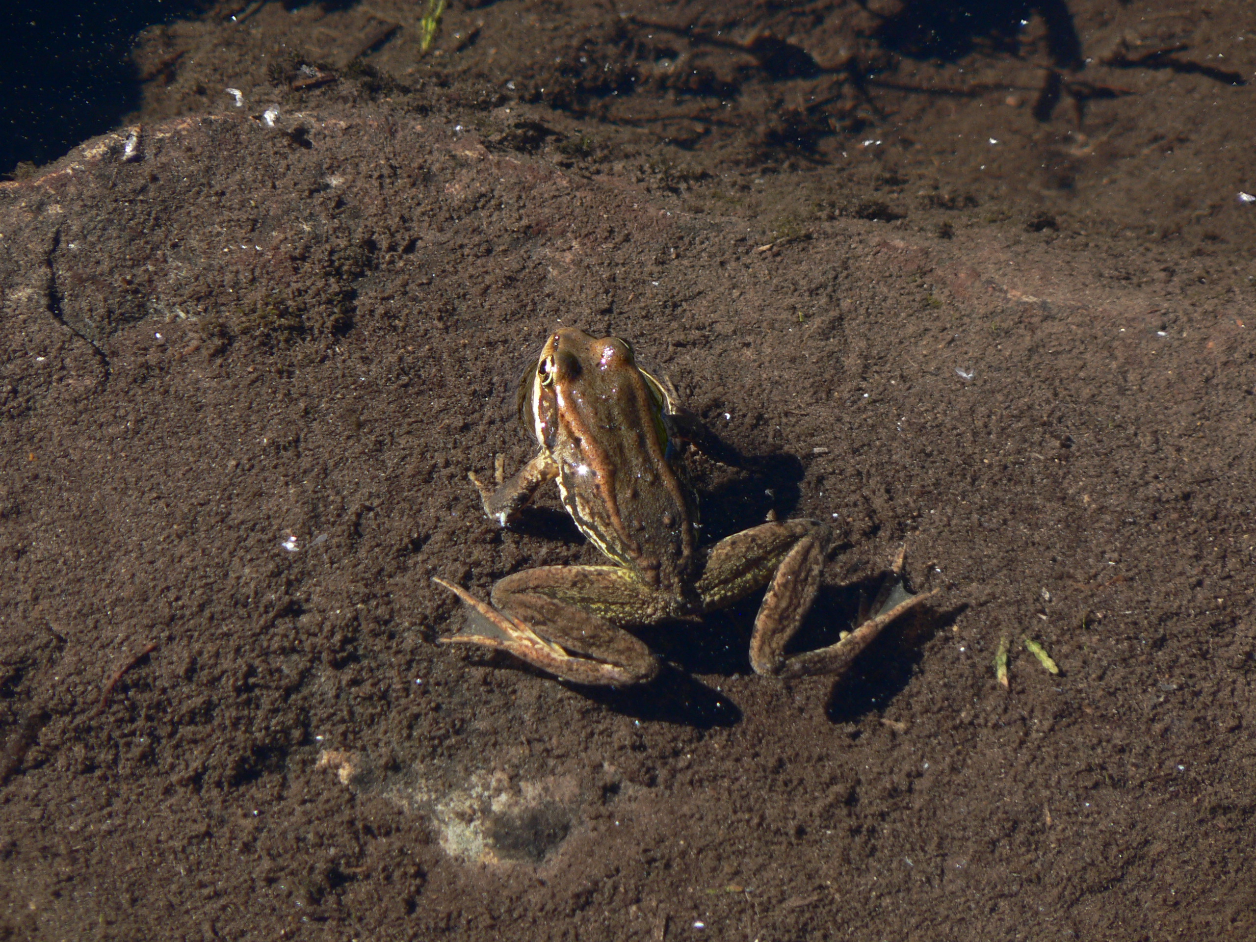 Cascades Frog